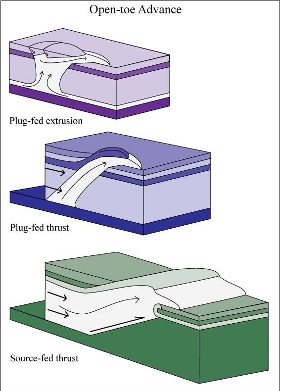 Illustration of open-toed advance